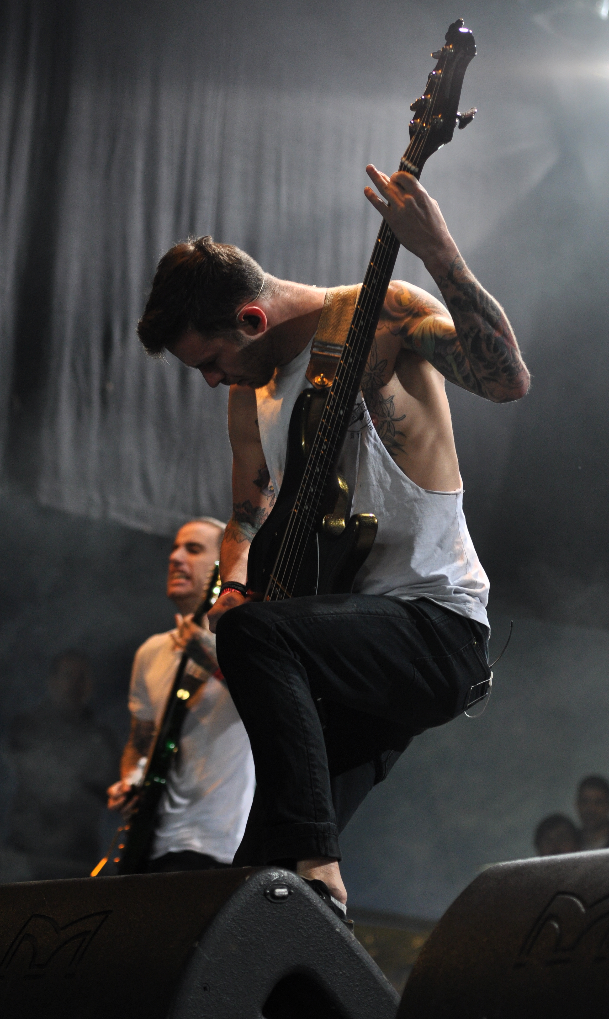 Chelsea Grin at Groezrock 2013